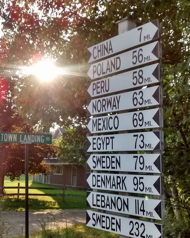 Picture of an iconic sign located in South China, Maine.